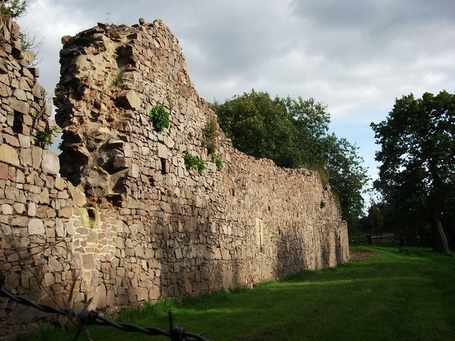 Remains of west curtain wall, Hartshill Castle, Castle Road, Hartshill